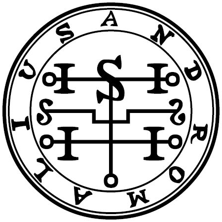 Andromalius seal, THE BOOK OF THE GOETIA OF SOLOMON THE KING (1904)